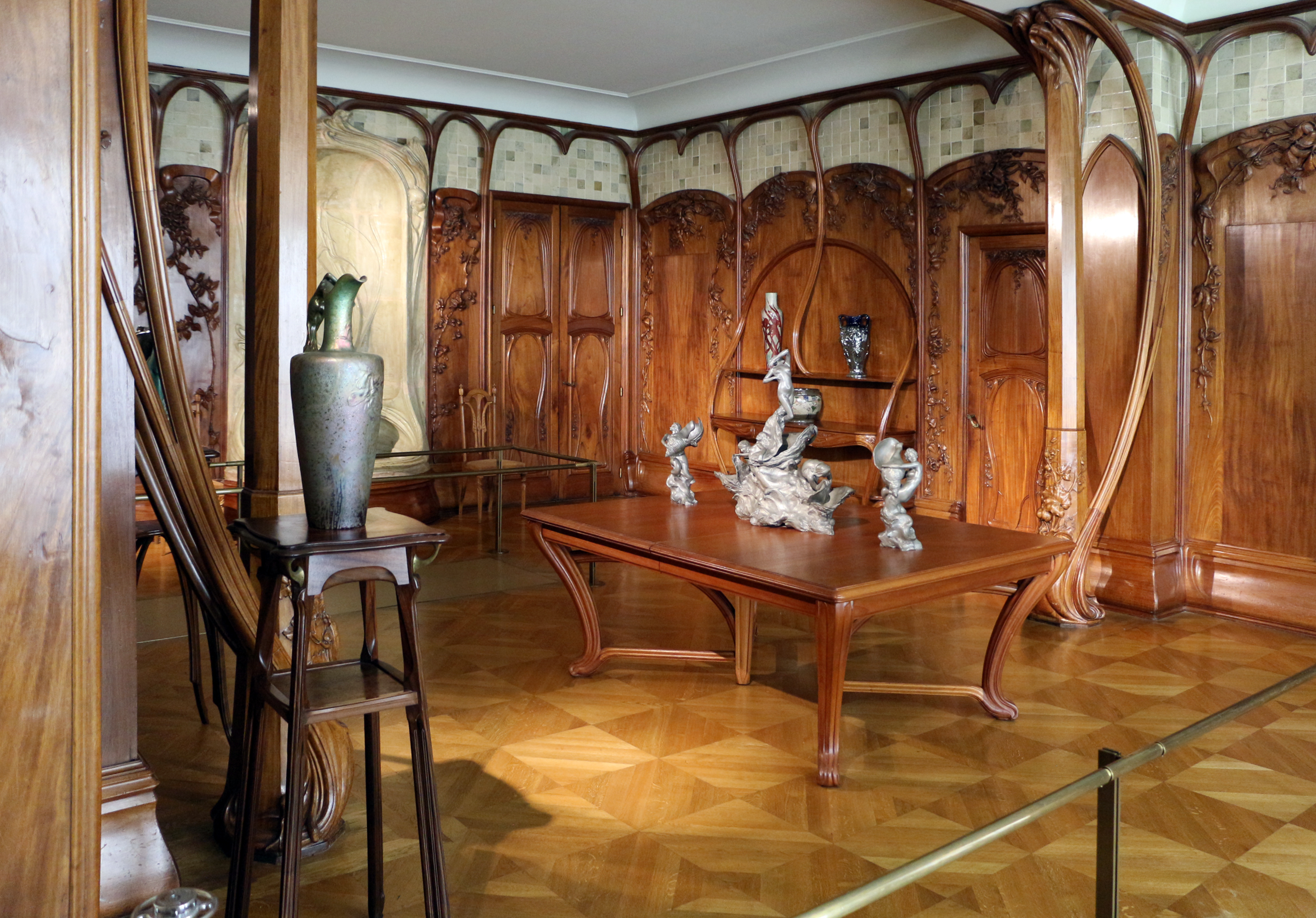 Decorative arts in the Musée d'Orsay